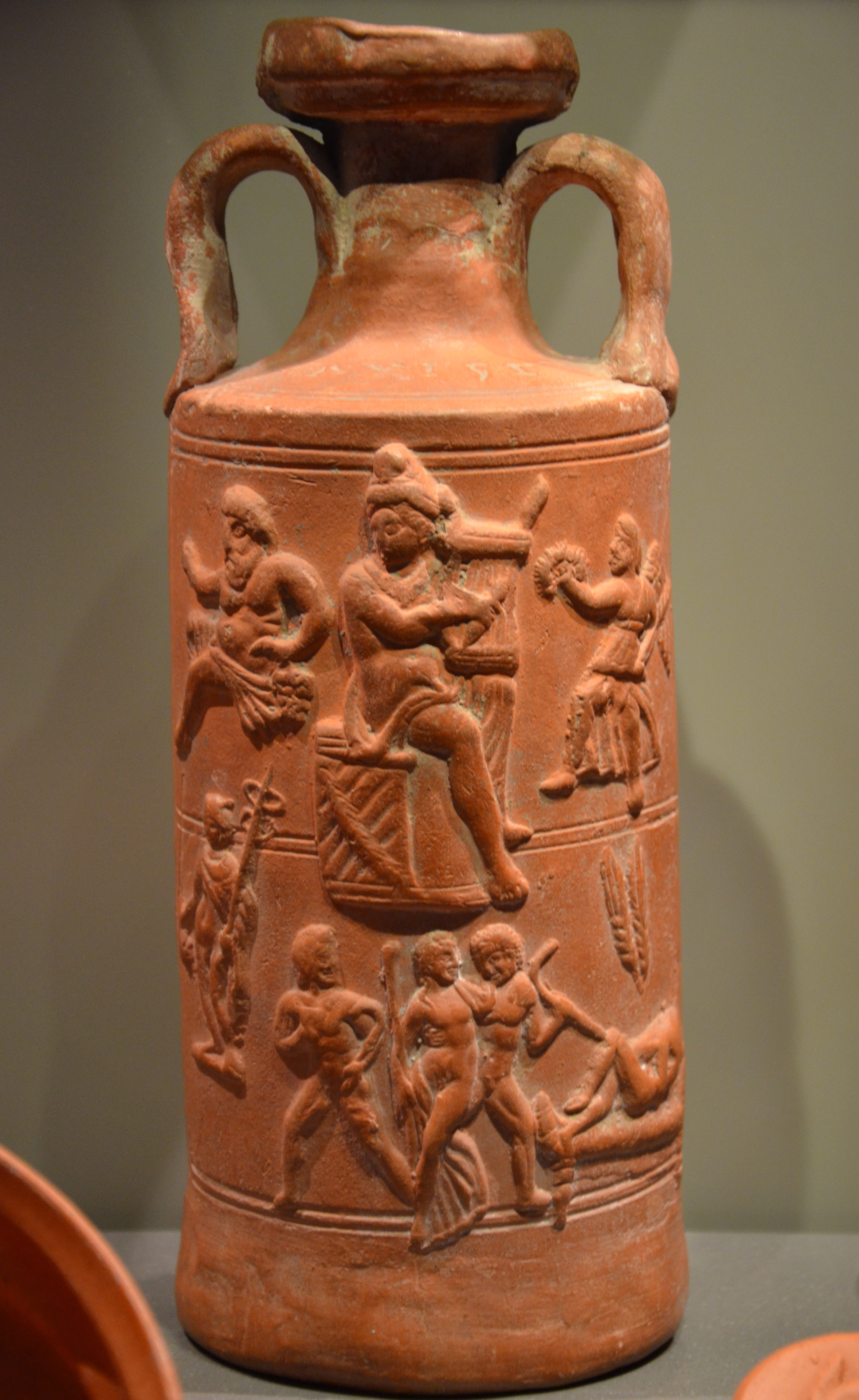 Ceramic cylindrical jug with Orpheus, from Tunisia, 3rd century AD, Neues Museum, Berlin